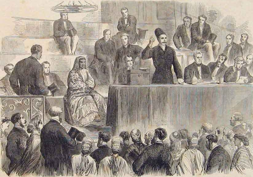 Engraving from the Illustrated London News of the 1865 Social Science Congress in Sheffield, England, with the Parsi reformer Maneckji Cursetji speaking on education in India.